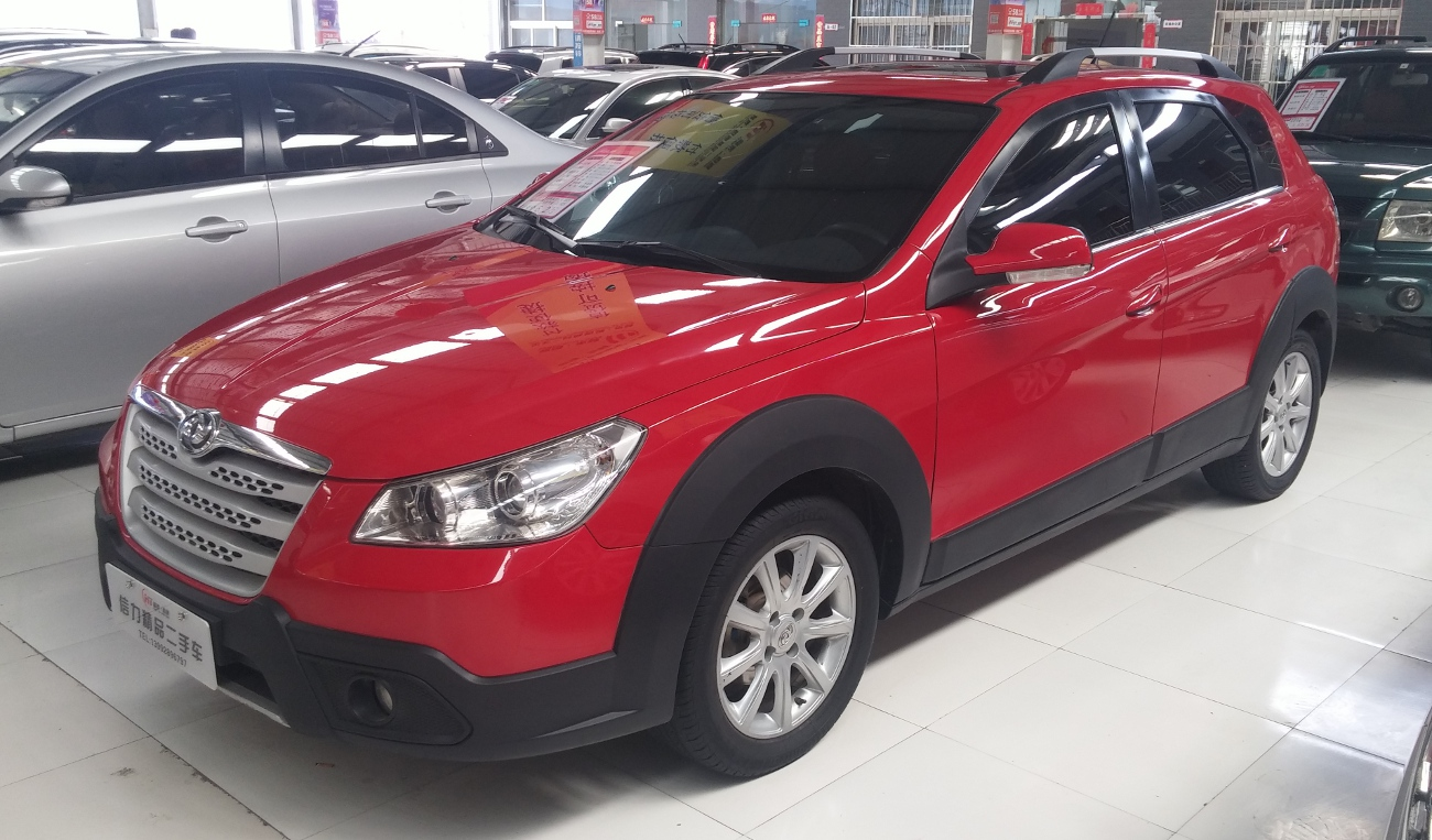 Dongfeng Fengshen H30 Cross photographed in Xi'an, Shaanxi province, China.